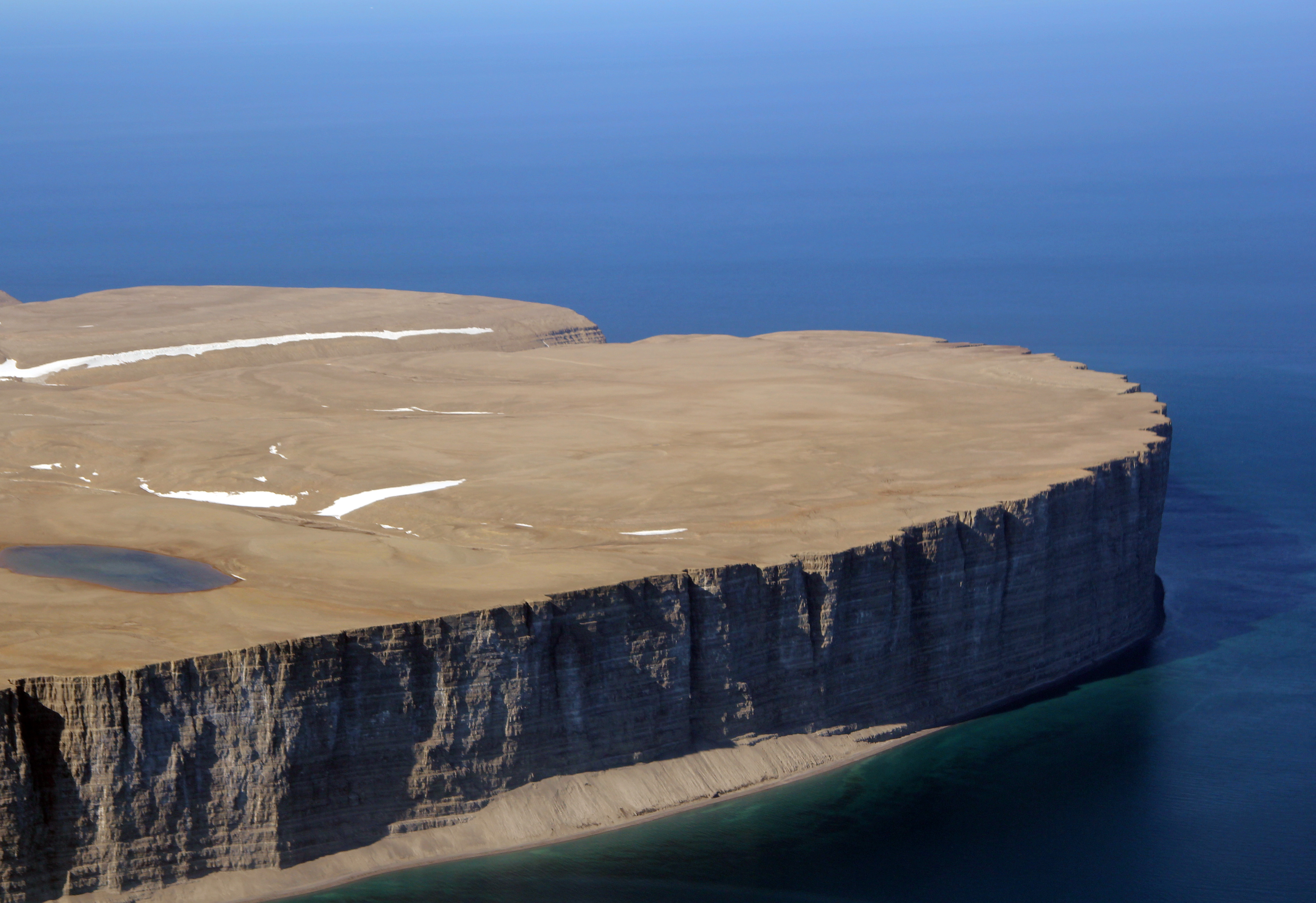 Cliffs at the north end of the island